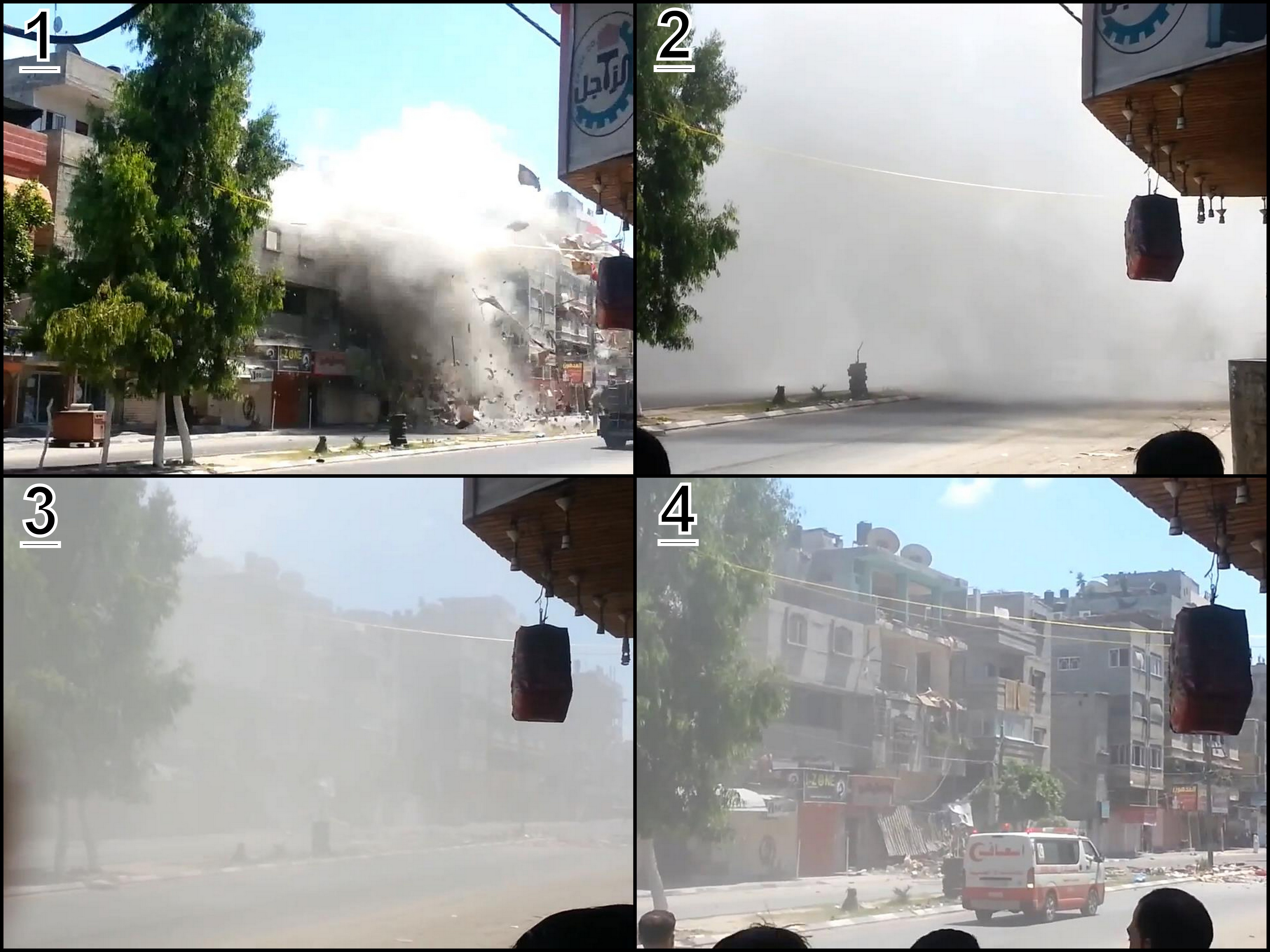 Airstrike of a house in Gaza 19.07.2014